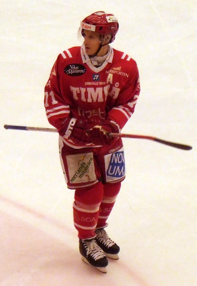 Ice hockey player Jonathan Hedström of Timrå IK in E.ON Arena, Timrå, Sweden during the Swedish Elite League game Timrå IK-Skellefteå AIK (1-2).